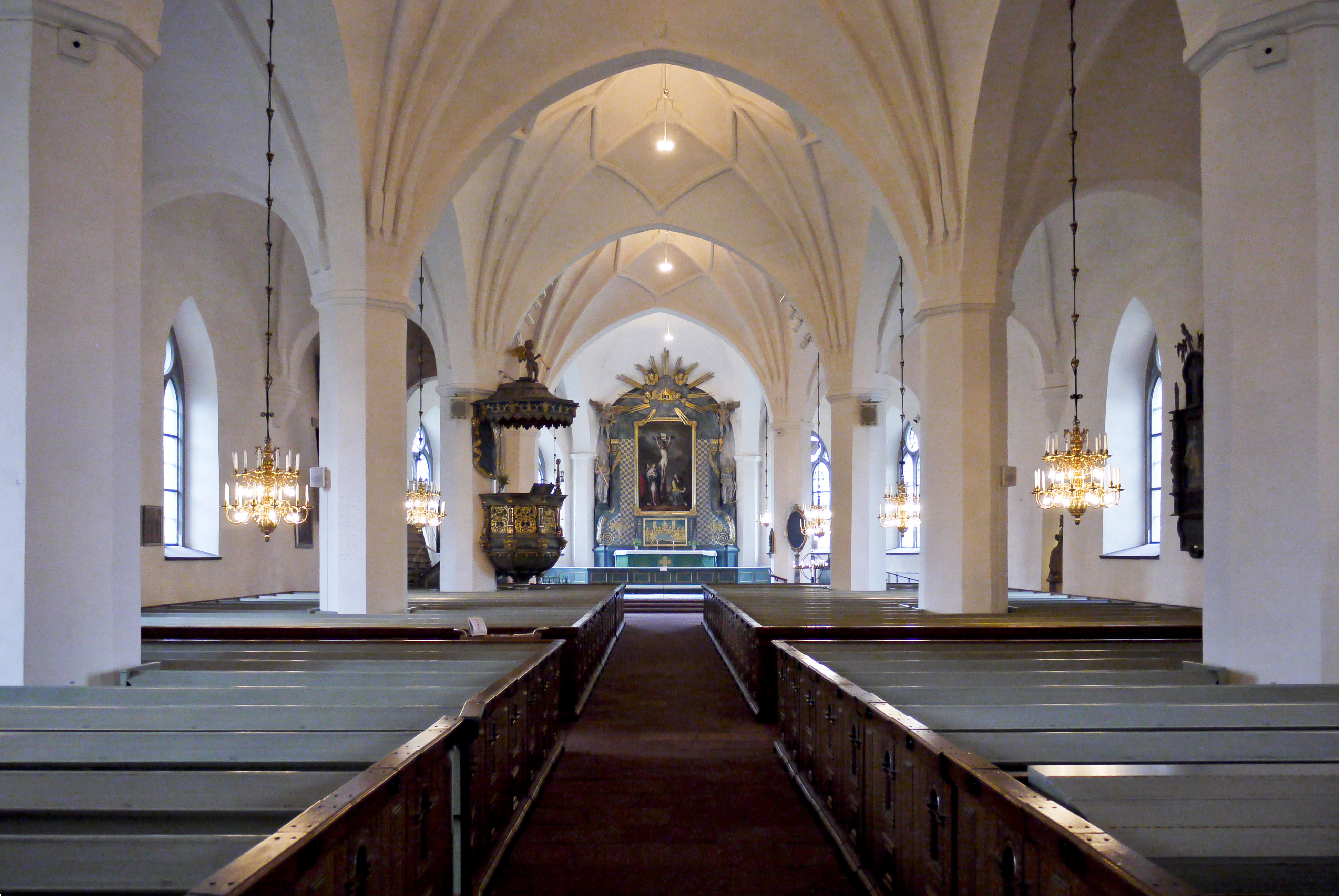 Mora kyrka/church. Diocese of Västerås. Mora, Sweden. Nave.